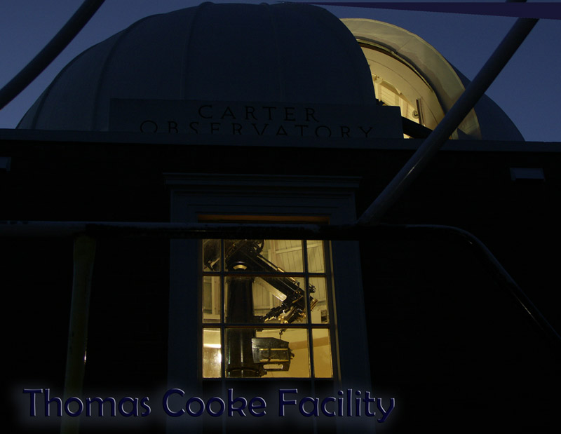 Thomas Cooke Telescope at Carter Observatory, The National Observatory of New Zealand, photo by Paul Moss paul moss wellington New Zealand photographer